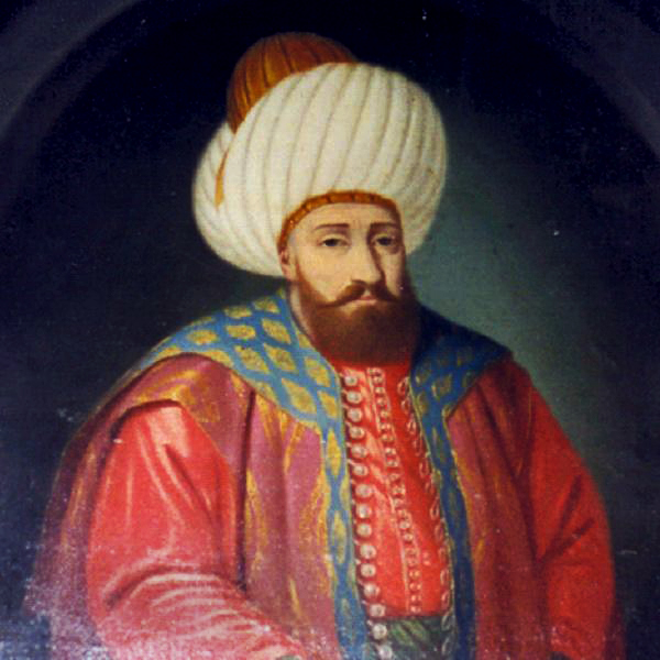 Portrait of Bayezid I, Sultan of the Ottoman Empire (1389-1402). The portrait is displayed along with other portraits of Ottoman sultans on the walls of the mirror hall of the Manyal Palace Museum.